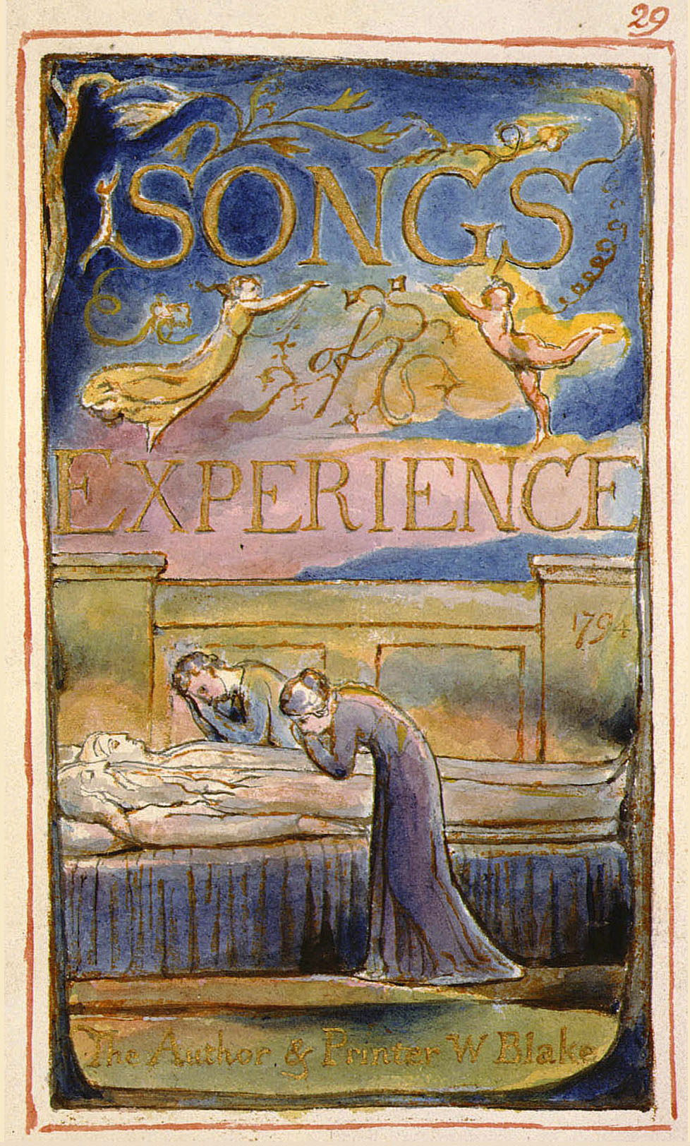 Songs of Innocence and of Experience copy AA object 29 Title Page for Songs of Experience